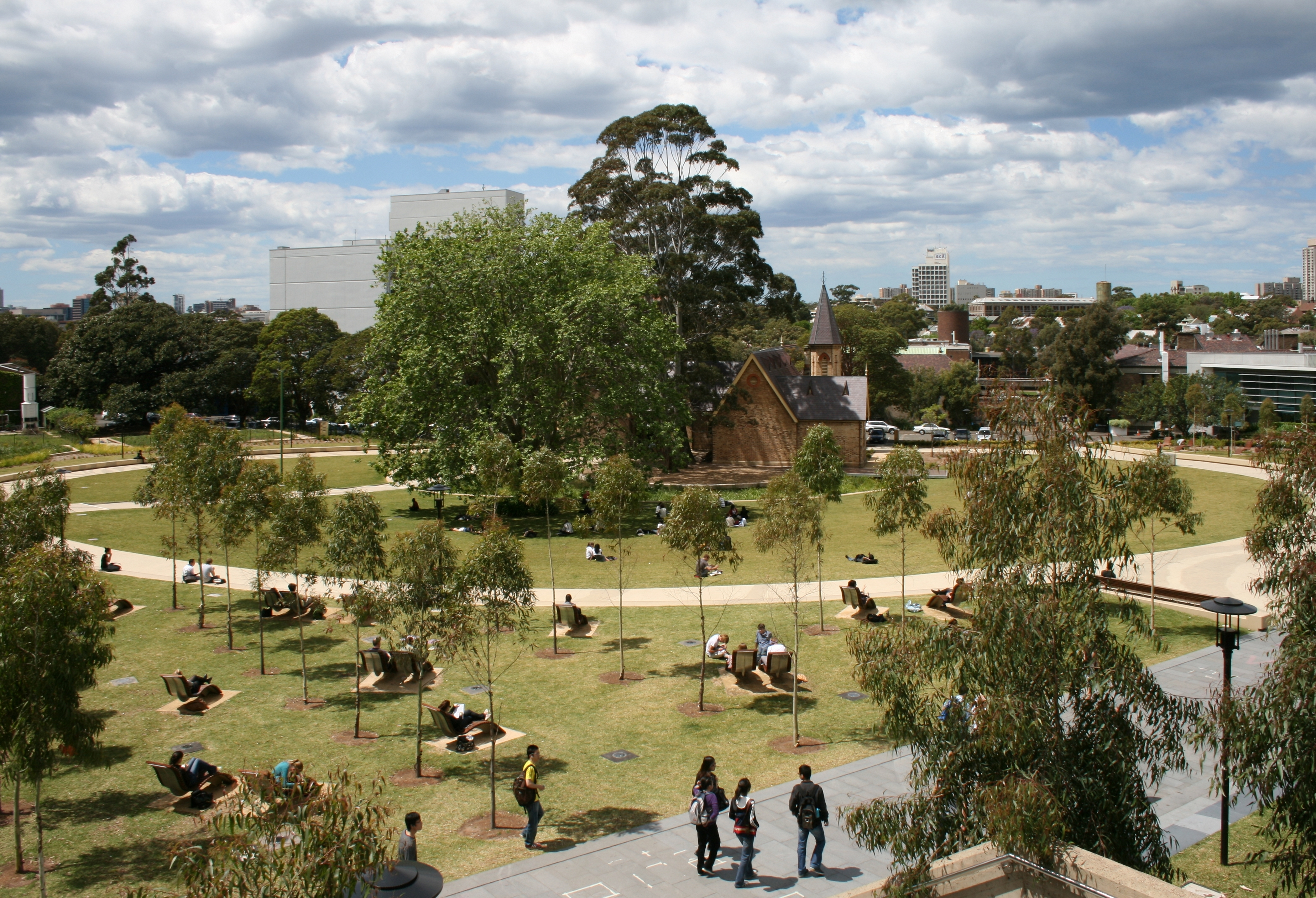 The Old School lawns at The University of Sydney, when viewed from the footbridge between the Wentworth building and the Biochemistry and Microbiology building.